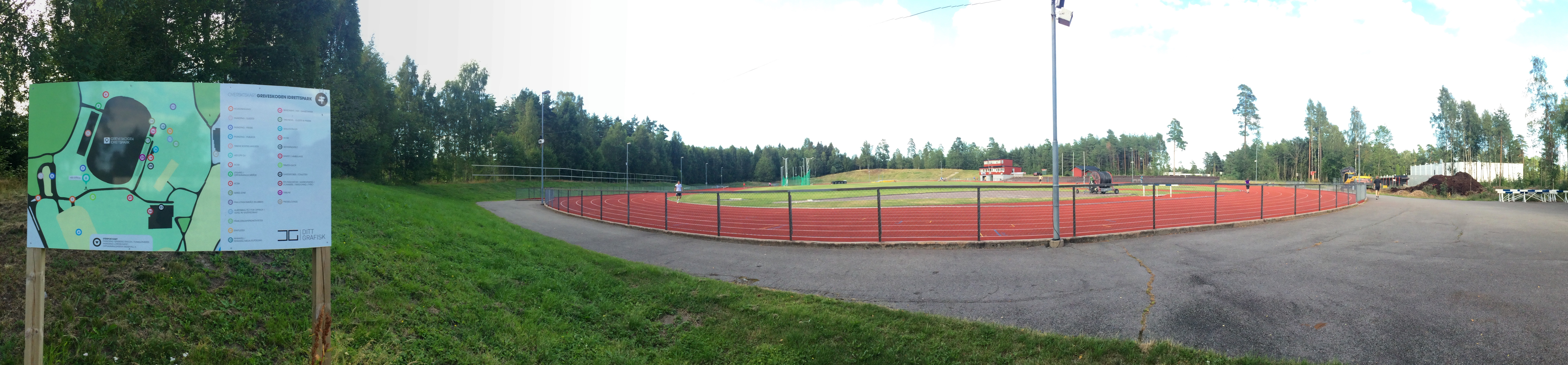 Greveskogen idrettspark Toensberg 2015-07-22 cropped distorted panorama